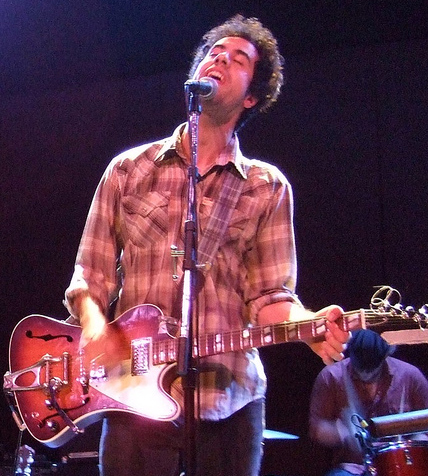 Dante DeCaro w/ Johnny and the Moon @ Bowery Ballroom on Oct 9, 2007.